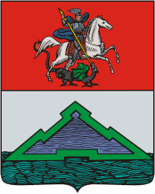 Volokolamsk (Moscow oblast), coat of arms (1781)